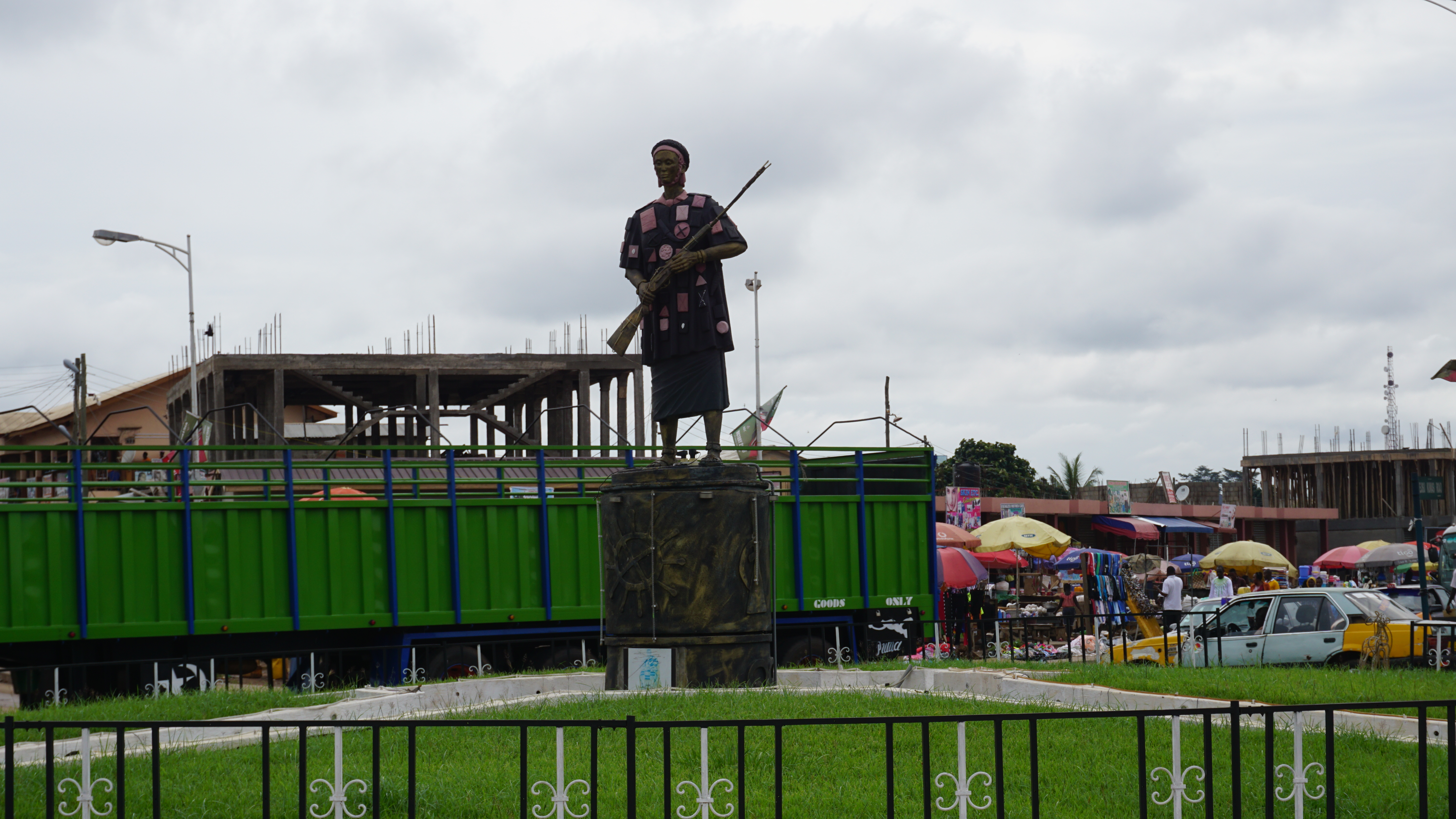 Ejisu roundabout having Yaa Asantewaa's monument.